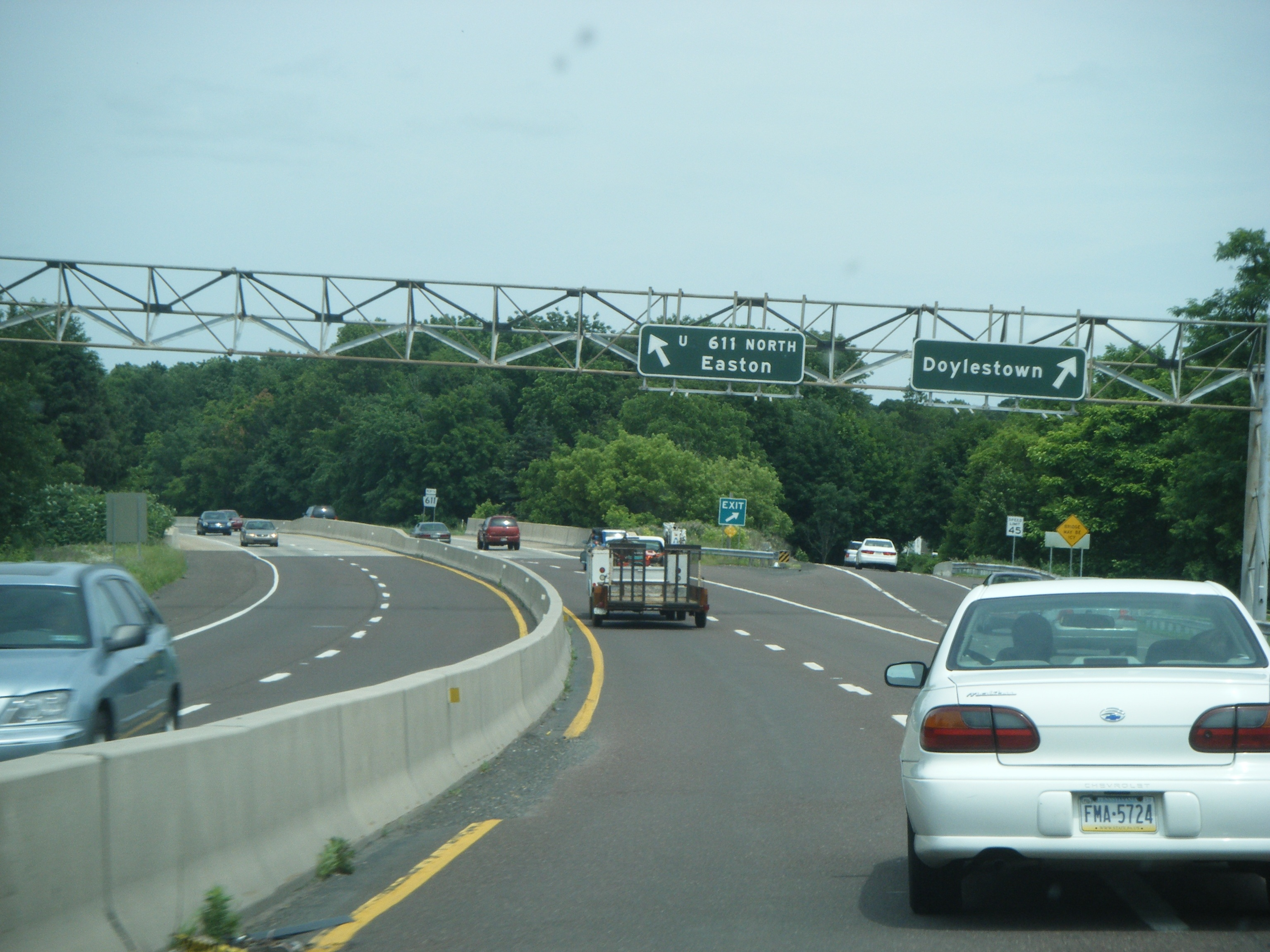 Northbound Pennsylvania Route 611 (Doylestown Bypass) at the interchange for Main Street in Doylestown Township. The button copy overhead signage, which refers to the route by its former U.S. Route 611 designation, has been replaced.